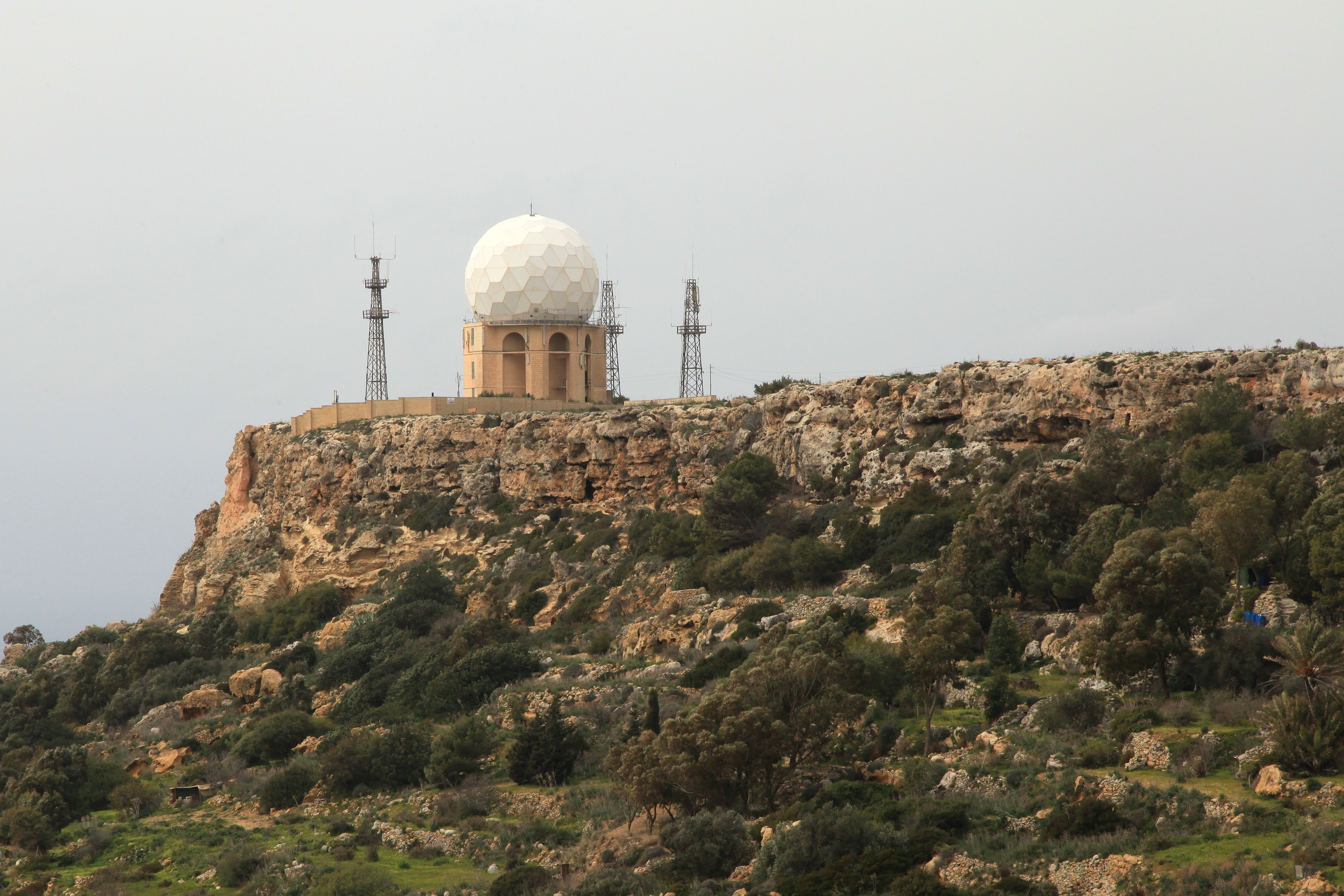 Dingli Aviation Radar at Triq Panoramika in Dingli, Malta